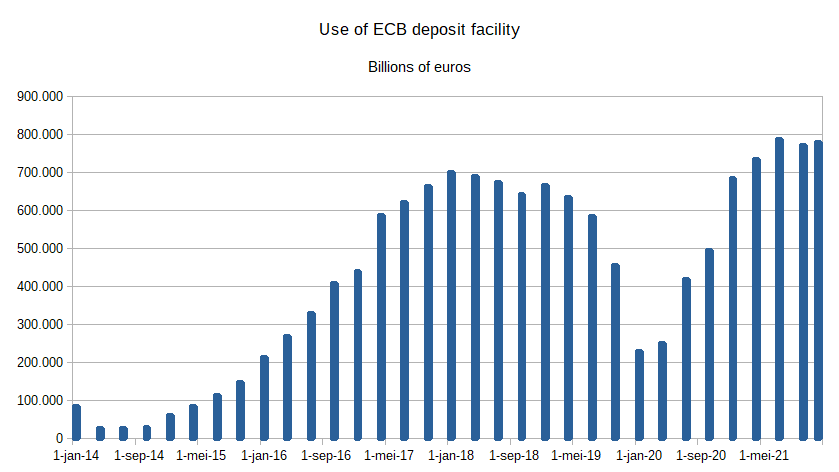 Use of ECB deposit facility by banks in the Eurosystem. This graph is a successor of previous graphs. I have moved from MS Office to LibreOffice which poses problems for more complex graphs, but this one seems OK.